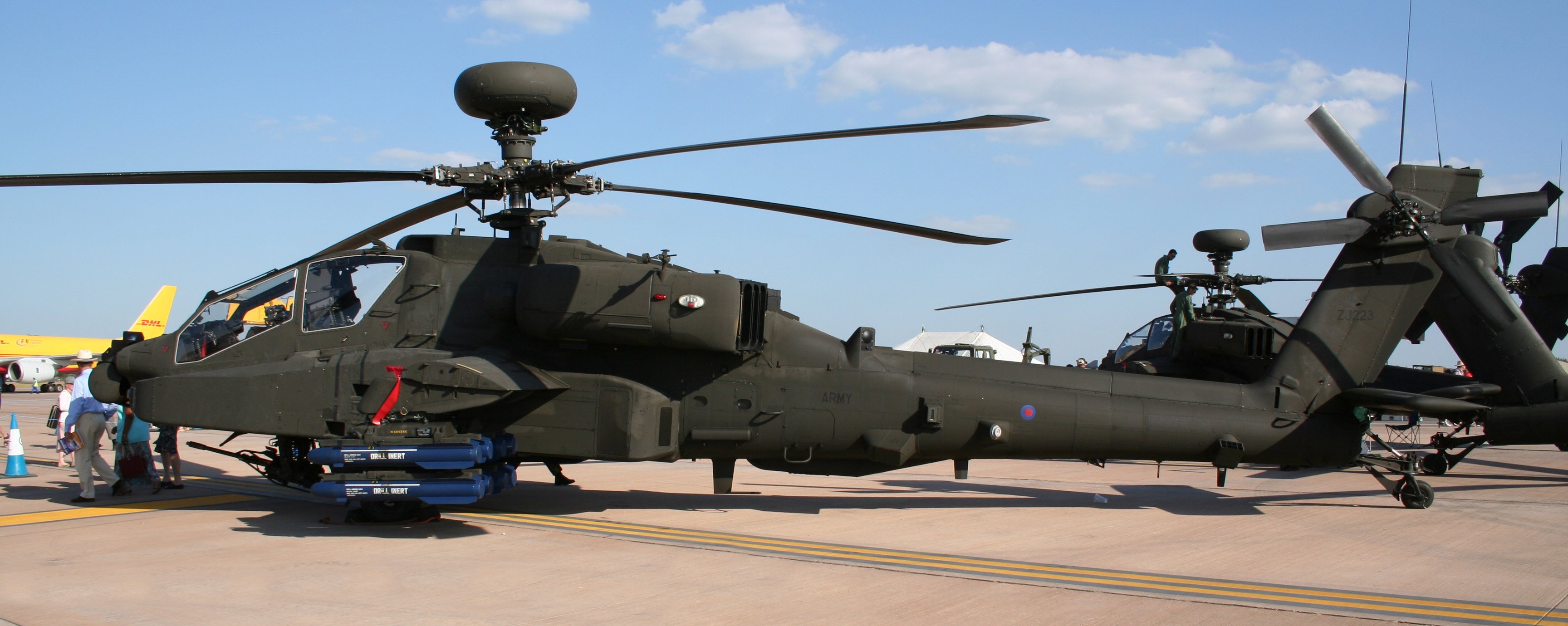 Photograph of a WAH64 Apache taken at RAF Fairford in June 2005 during the Royal International Air Tatoo.